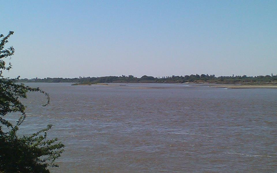 Rabak